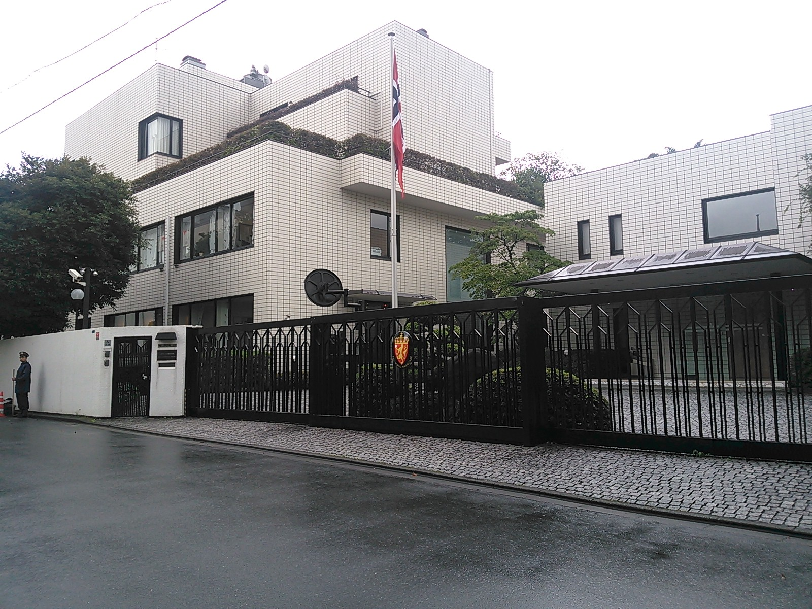 Embassy of Norway in Tokyo